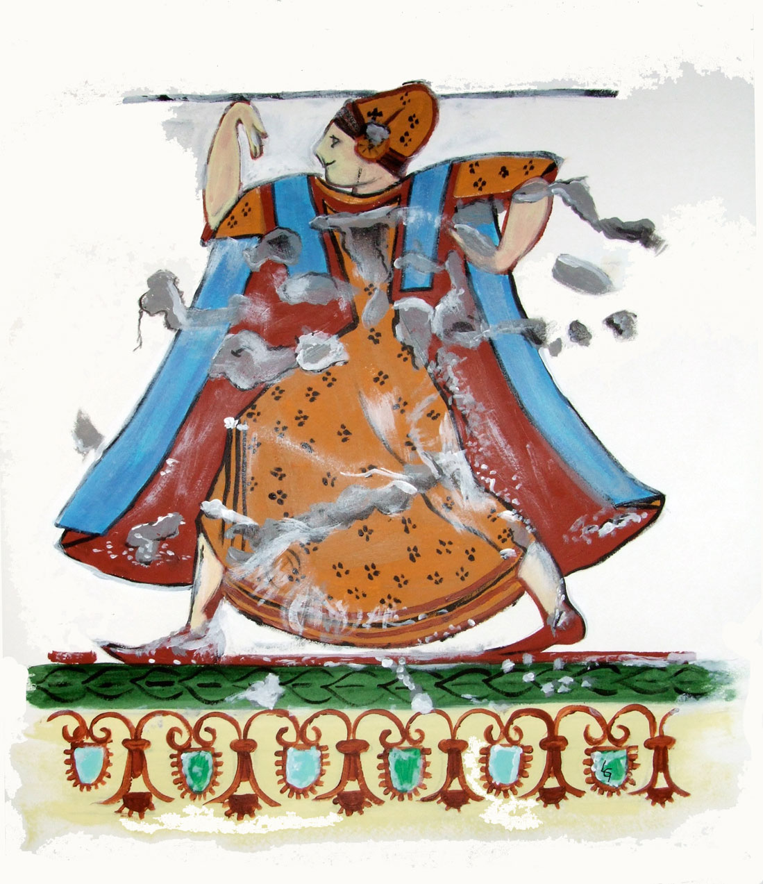 My final painting for Tomba delle Leonesse